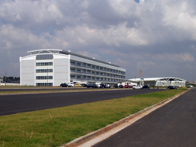 São Paulo University EACH-USP parcial view